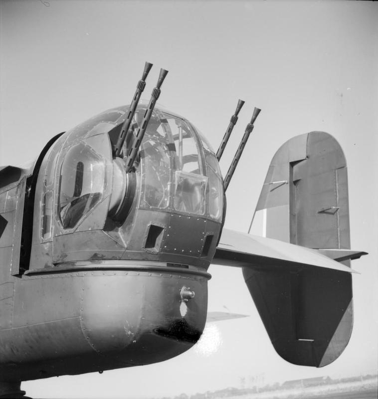 Royal Air Force Bomber Command, 1942-1945. Close-up of the Boulton Paul Type 'E' tail gun-turret, mounting four .303 machine guns, on a Handley Page Halifax Mark II of No. 78 Squadron RAF at Breighton, Yorkshire.